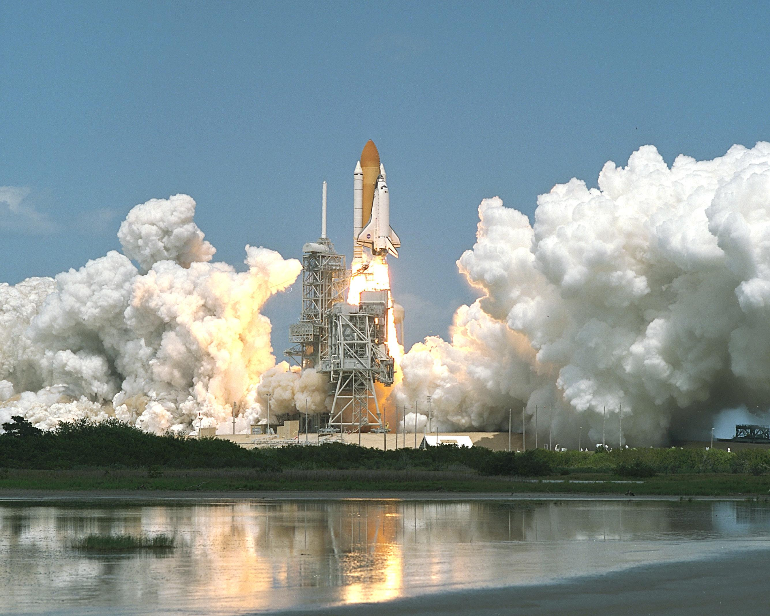 A perfect liftoff of Space Shuttle Endeavour on mission STS-100.